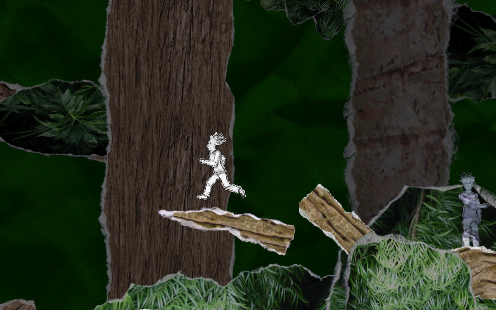 And Yet It Moves screenshot, by Broken Rules (game developer)